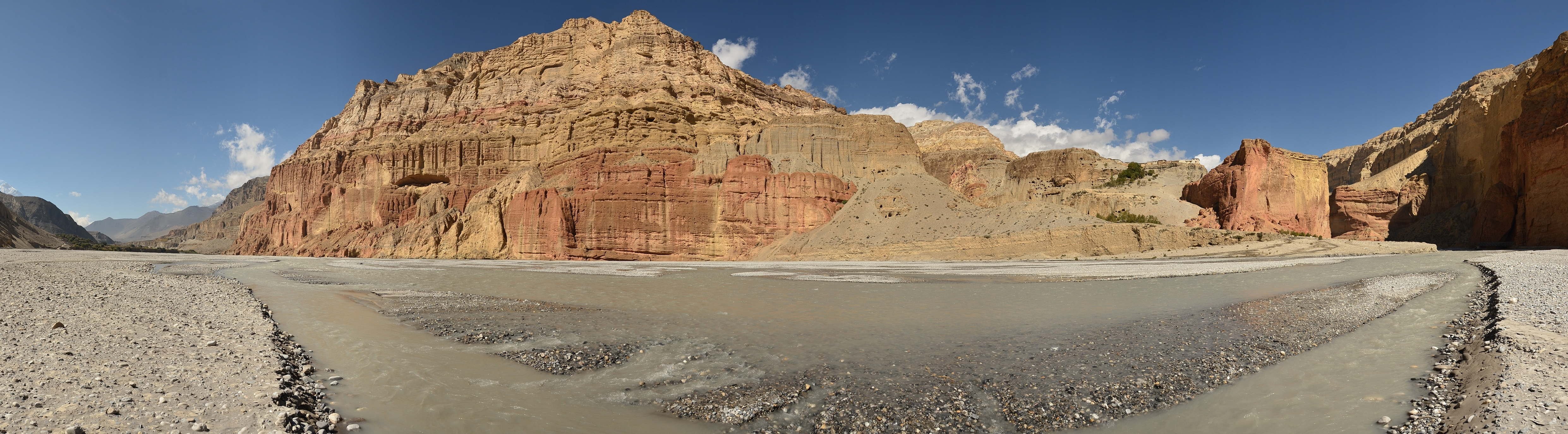 Between Chusang and Chele we walk along the "Black river" and are dwarved by the huge organ pipes. At the right the wide valley turns into a narrow gorge, the trail goes up to the whitewashed houses of Chele.